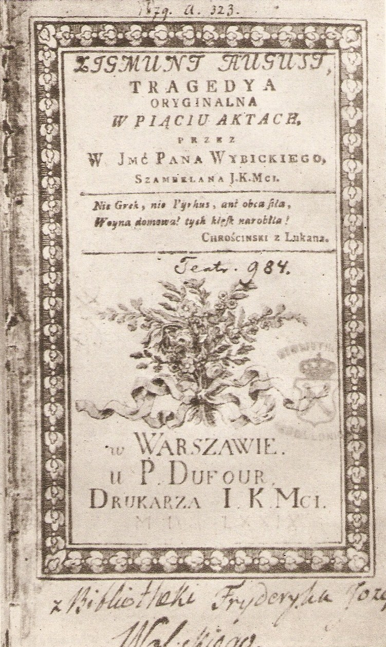 Józef Wybicki, "Zygmunt August"